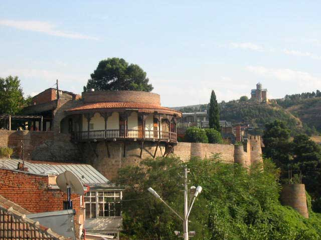 Queen Darejan's palace in Tbilisi. Latter part of the 18th century